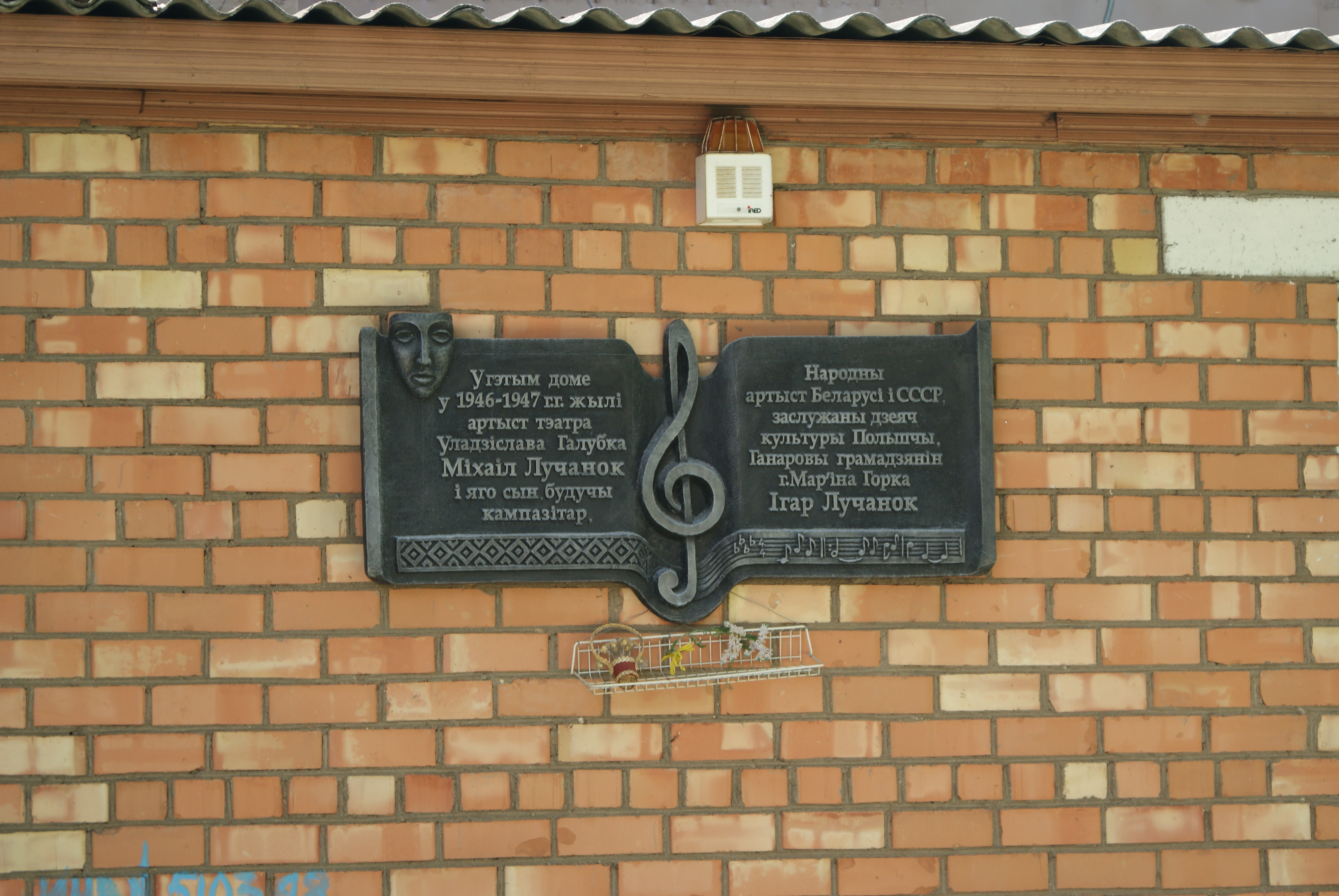 Memorial plaque Luchenok